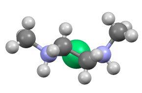 view down chelate ring-Ni axis in NiCl2(MeN(H)C2H4N(H)Me)2